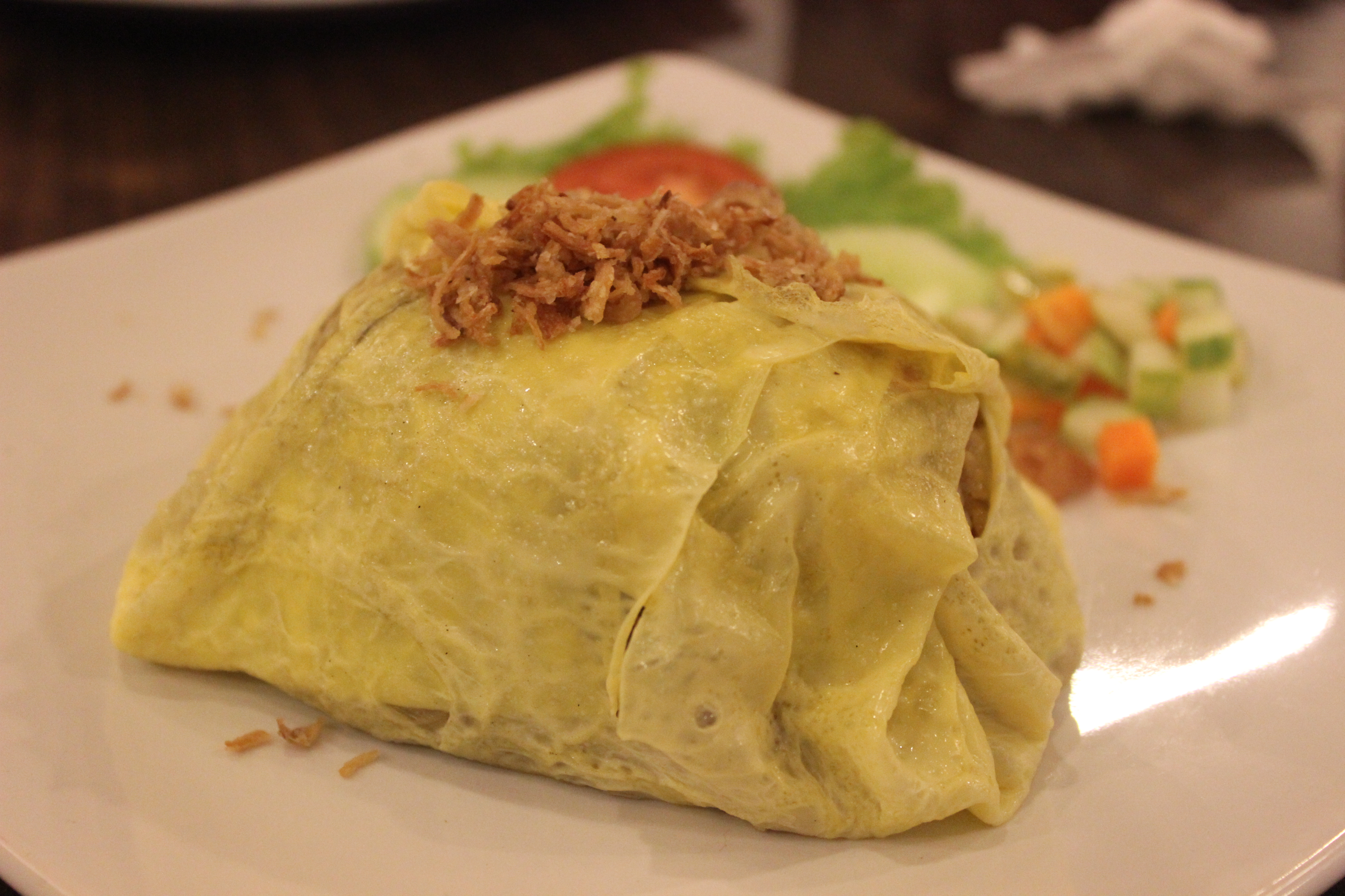 Nasi goreng Pattaya (Pattaya fried rice), a local delicacy from Pattaya, Thailand. It is fried rice served in a pouch of omelette, commonly found in Indonesia, Malaysia, Singapore and Thailand.